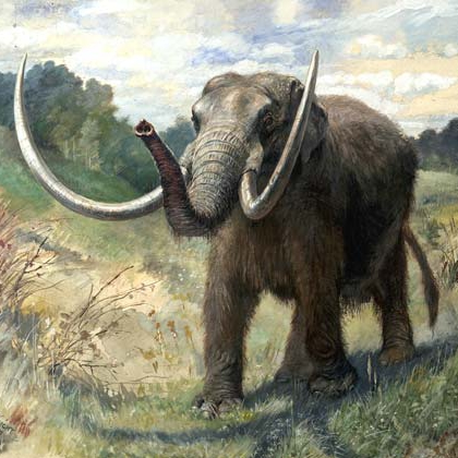 A square crop of File:Knight_Mastodon.jpg